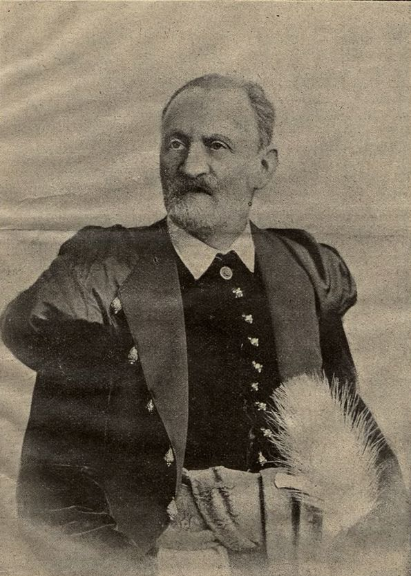 burmistrz Przemyśla